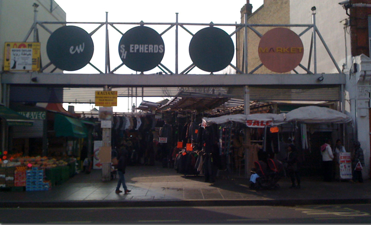 New Shepherds Bush Market 2012